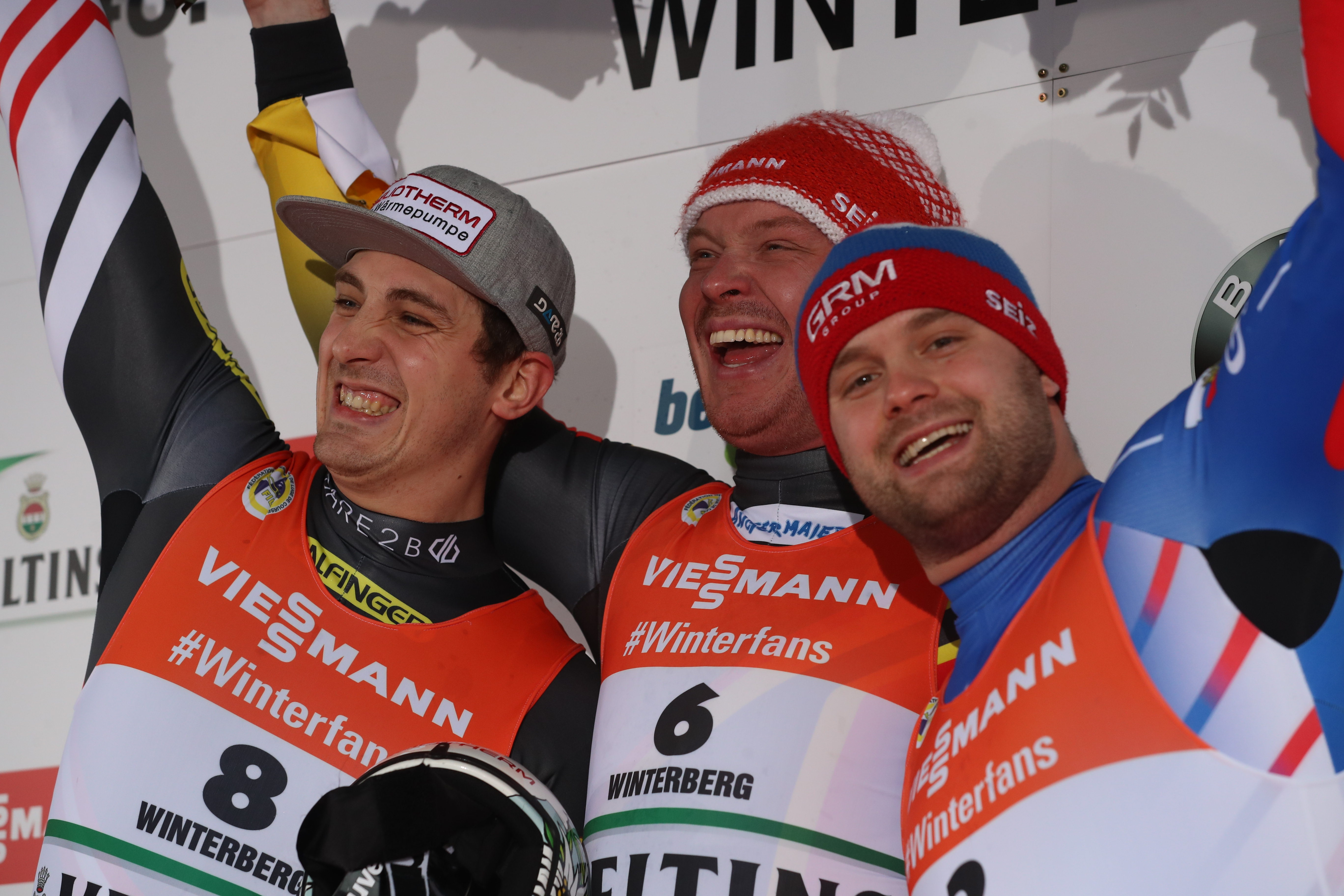 Men's race at the FIL World Luge Championships 2019 in Winterberg